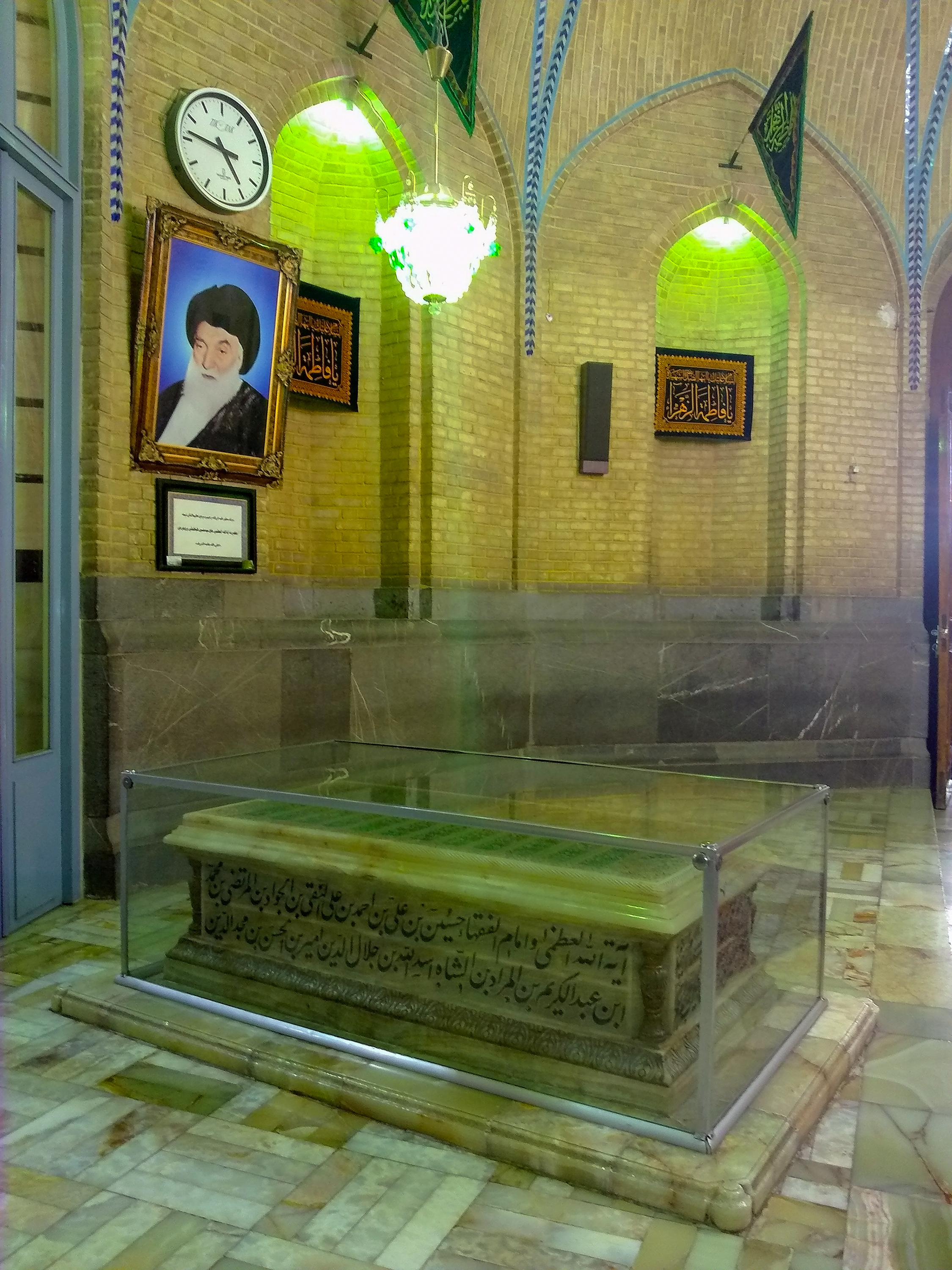 The shrine of Fatema Mæ'sume (sister of Imām ʻAlī ibn-Mūsā Riđā) is located in Qom which is considered by Shia Muslims to be the second most sacred city in Iran after Mashhad. Fatima Masumeh was the sister of the eighth Imam 'Ali al-Rida and the daughter of the seventh Imam Musa al-Kadhim (Tabari 60). In Shia Islam, women are often revered as saints if they are close relatives to one of the Twelver Imams. Fatima Masumeh is therefore honored as a saint, and her shrine in Qom is considered one of the most significant Shi'i shrines in Iran. Every year, thousands of Shi'i Muslims travel to Qom to honor Fatima Masumeh and ask her for blessings. For more information on the history of Fatima Masumeh, see Fatima bint Musa.